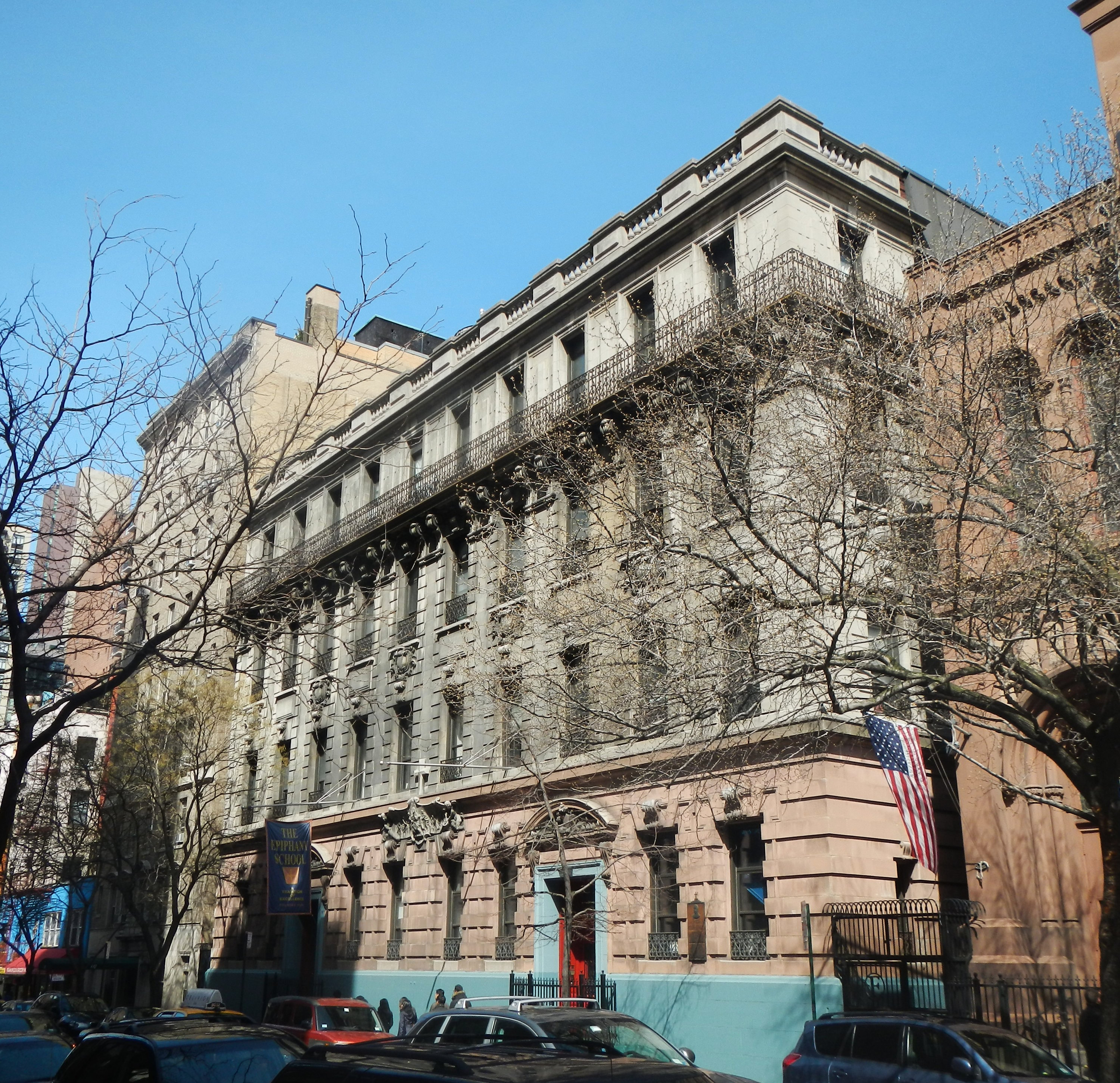 Looking north at school on a sunny late morning.